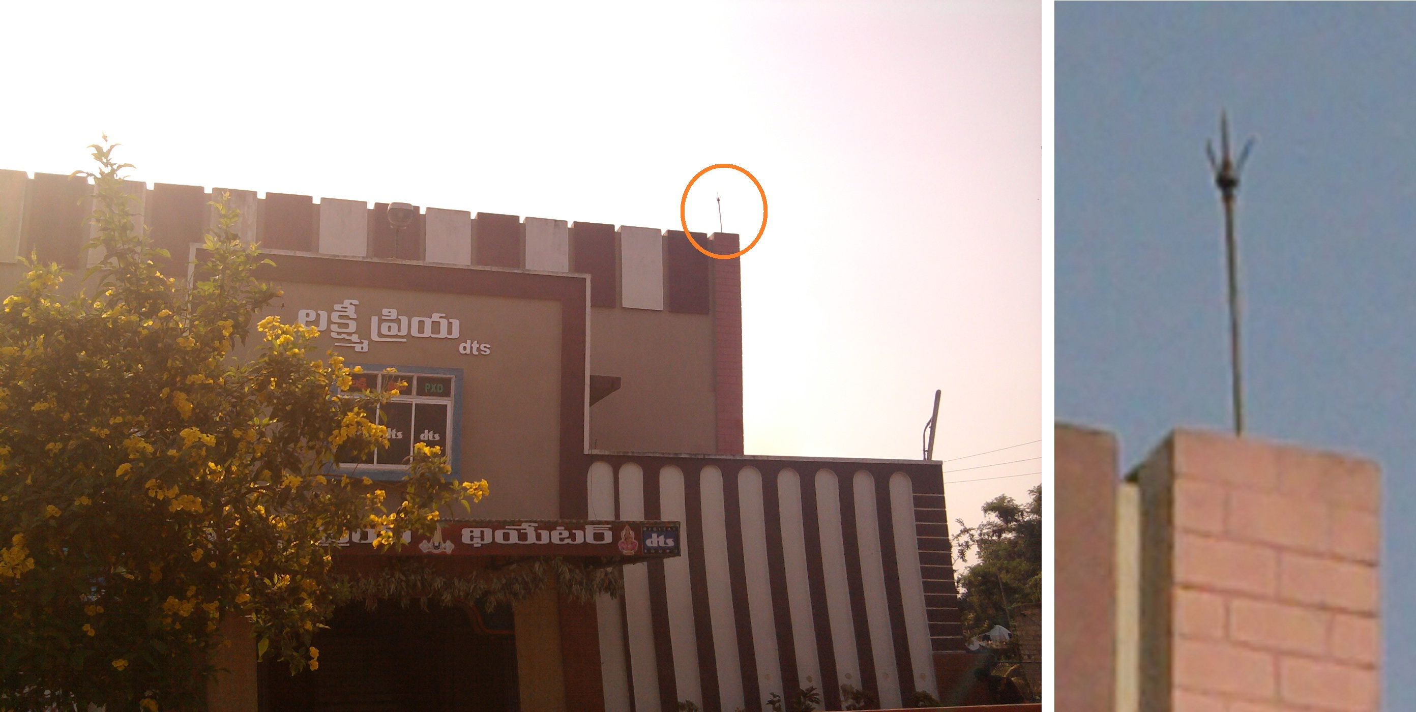 Saver from Thunderbolt